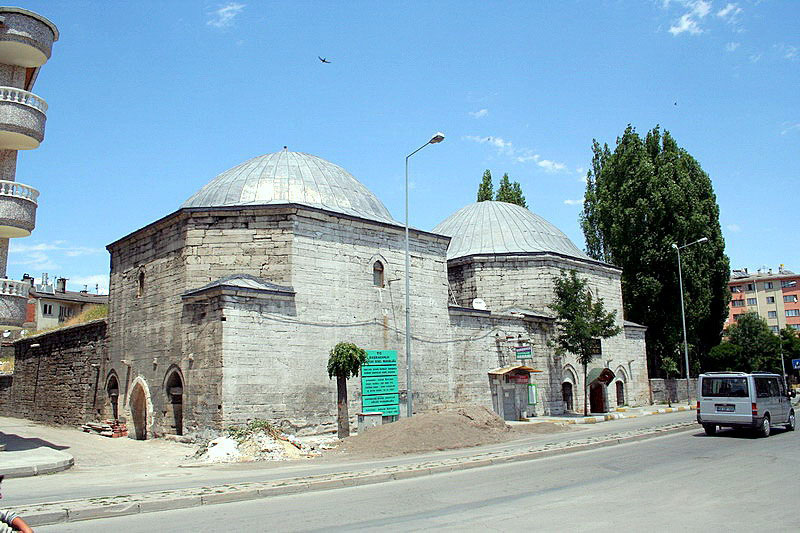 Kurşunlu Hamamı, Sivas, Turkey